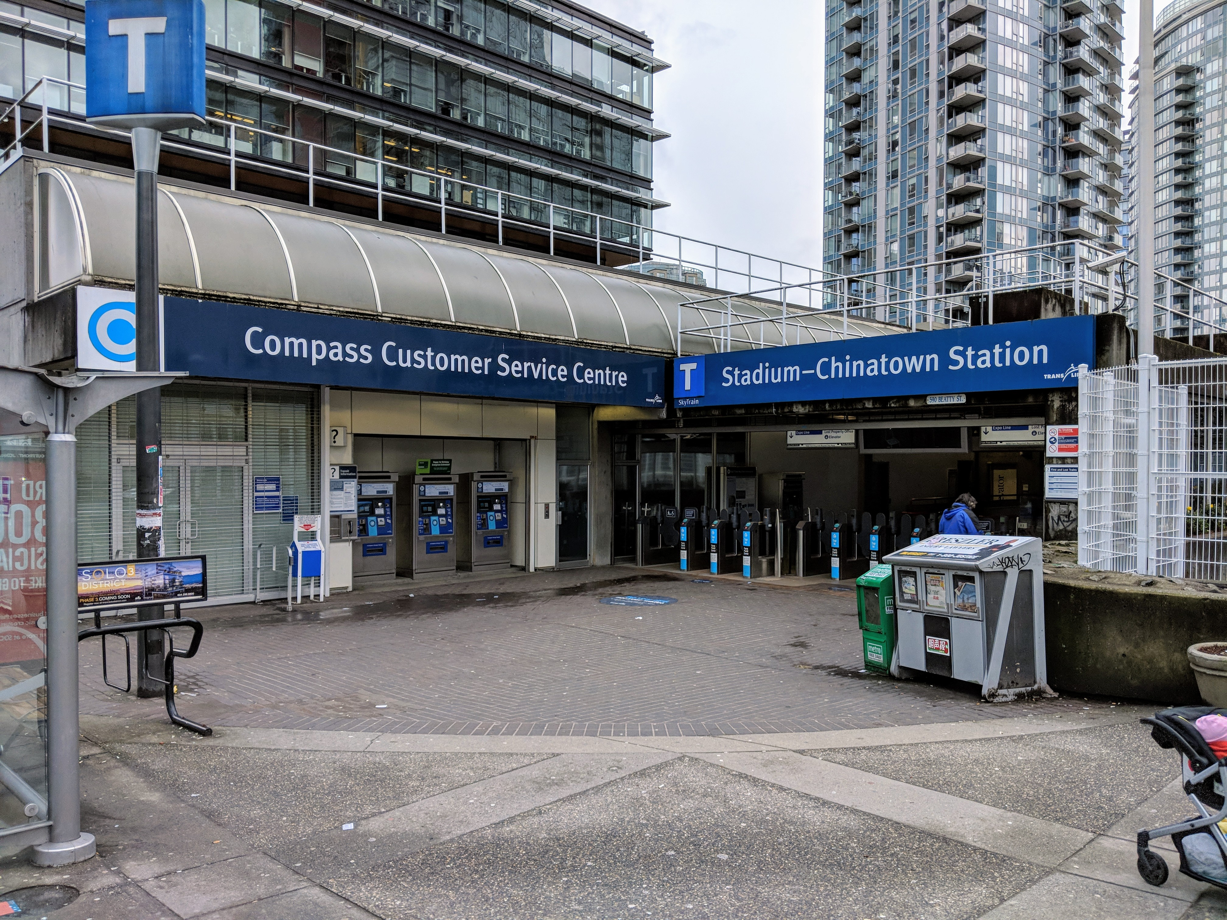 Beatty Street entrance of Stadium–Chinatown station. Compass Custom Service is located at this entrance.